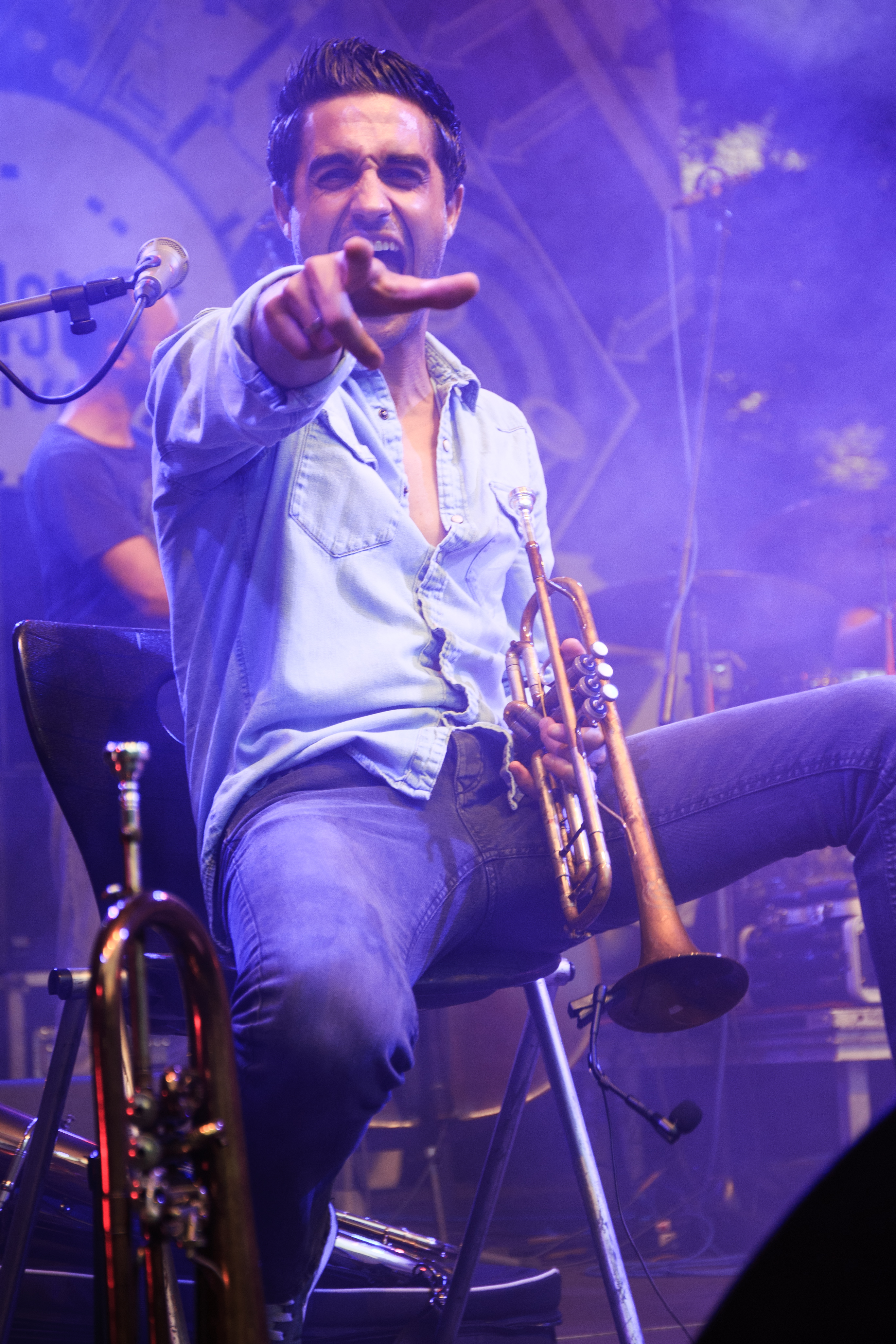 Dominik Glöbl with Dreiviertelblut at Rudolstadt-Festival 2017.